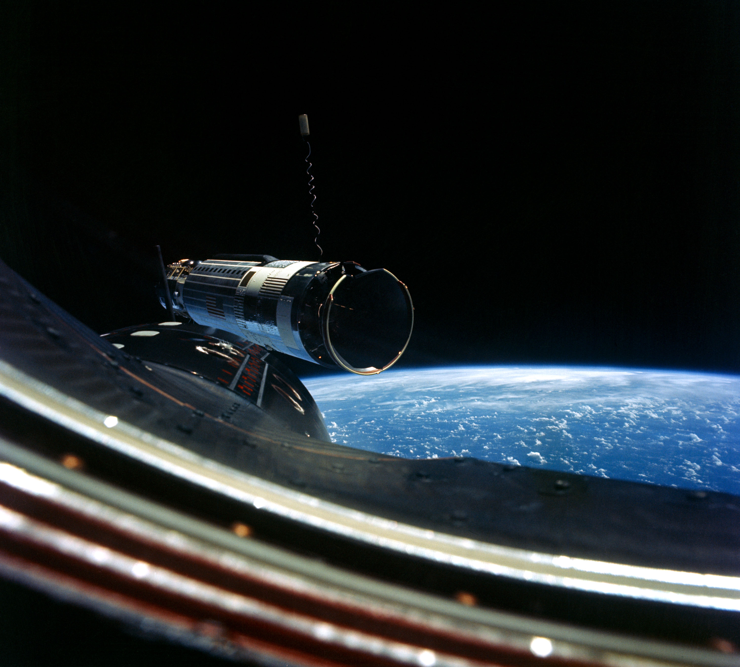 Gemini 10 - Agena Target Docking VehicleAgena Target Docking Vehicle 5005 is photographed from the Gemini-10 spacecraft during rendezvous in space. The docking adapter is turning towards the spacecraft. The two vehicles are about 24 feet apart.